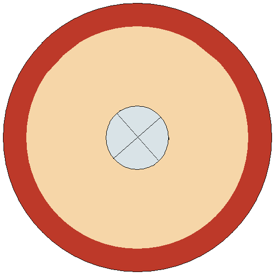 Shield pattern of Martenses (Legio I Flavia Martis) in the early 5th century. Source(Notitia Dignitatum Occ. V.)